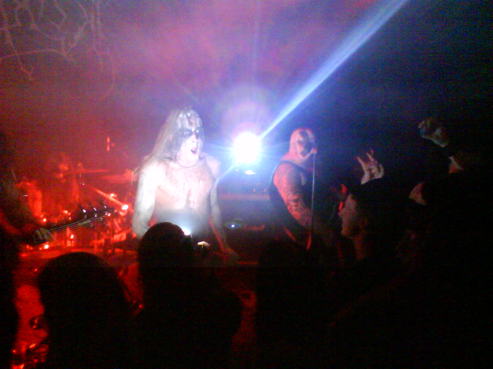 Ragnarok performing live in Glengshuset, Sarpsborg the 28th of May 2010